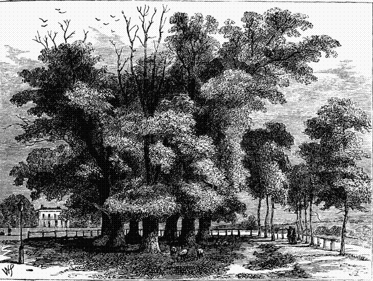 Author: Robert Sayer